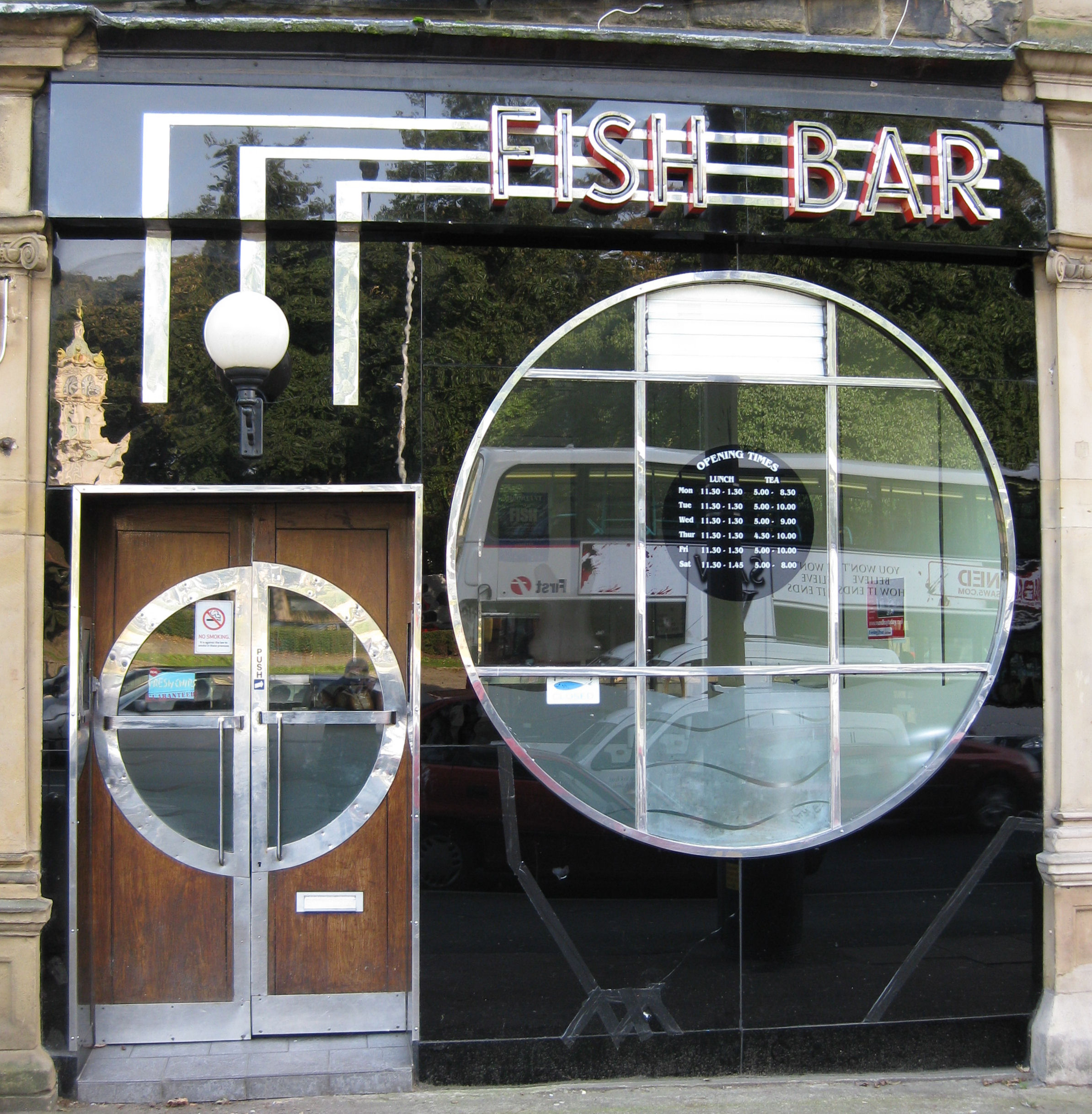 Fish and Chip Shop, 492 Roundhay Road, Leeds